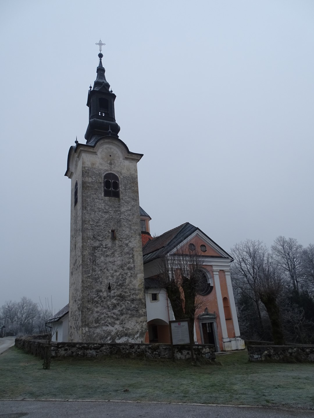 Church of St. Andrew in Krašce